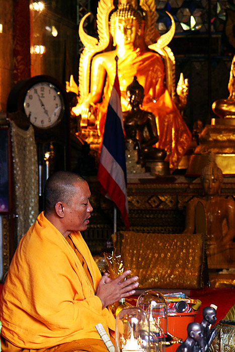 Monk praying, Thailand